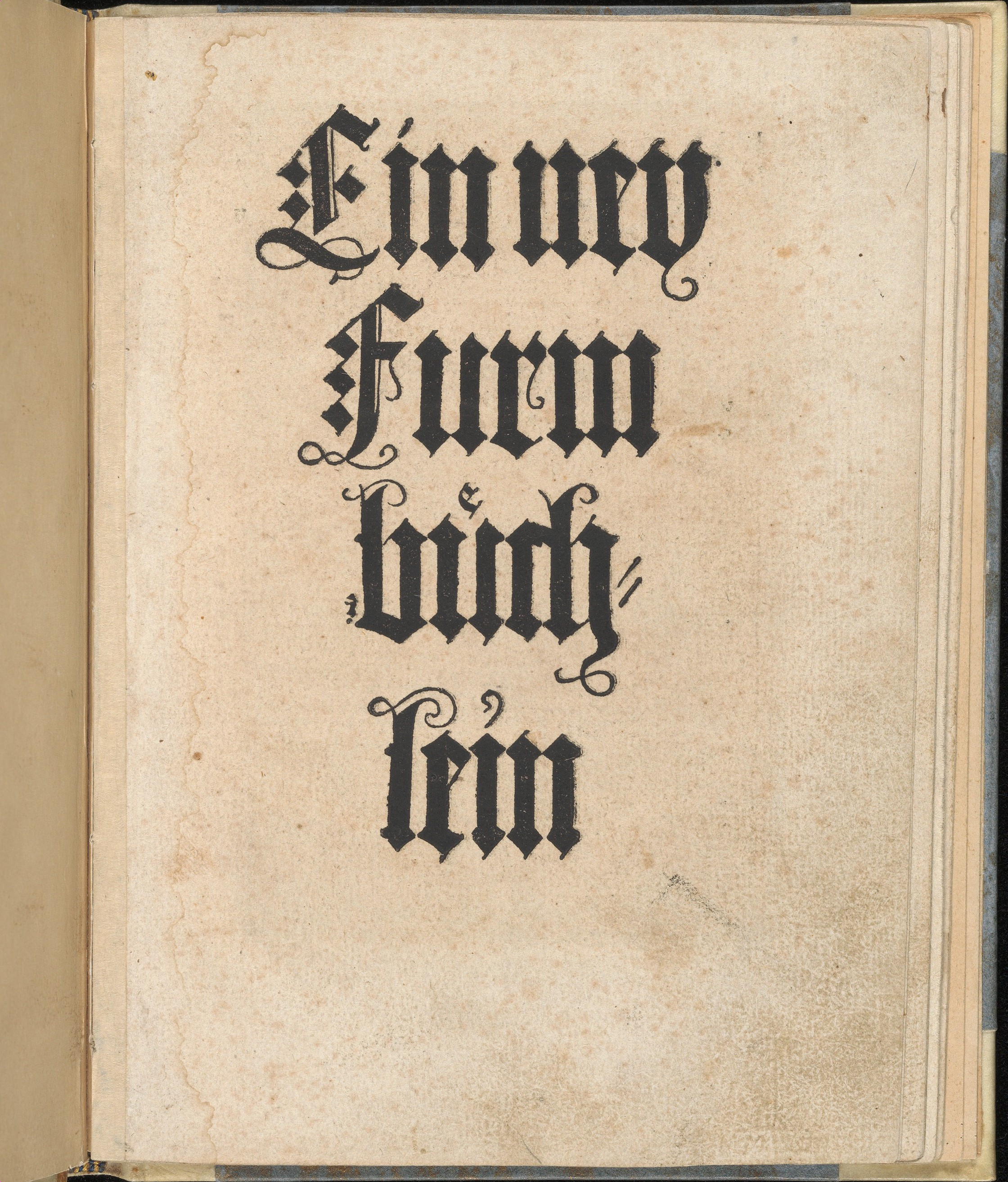 Book Prints Ornament & Architecture; Books